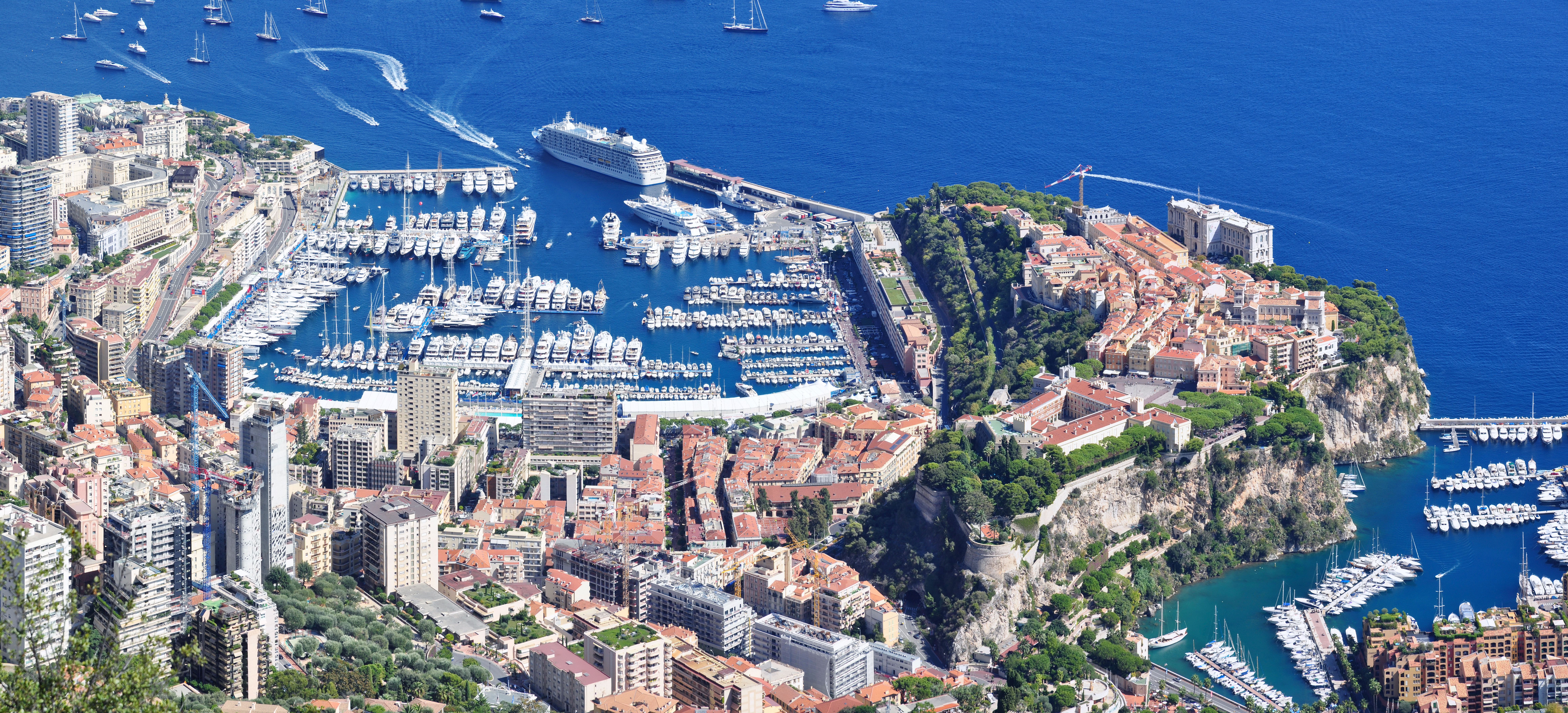 harbour and Rock of Monaco seen from a viewpoint near the village of La Turbie